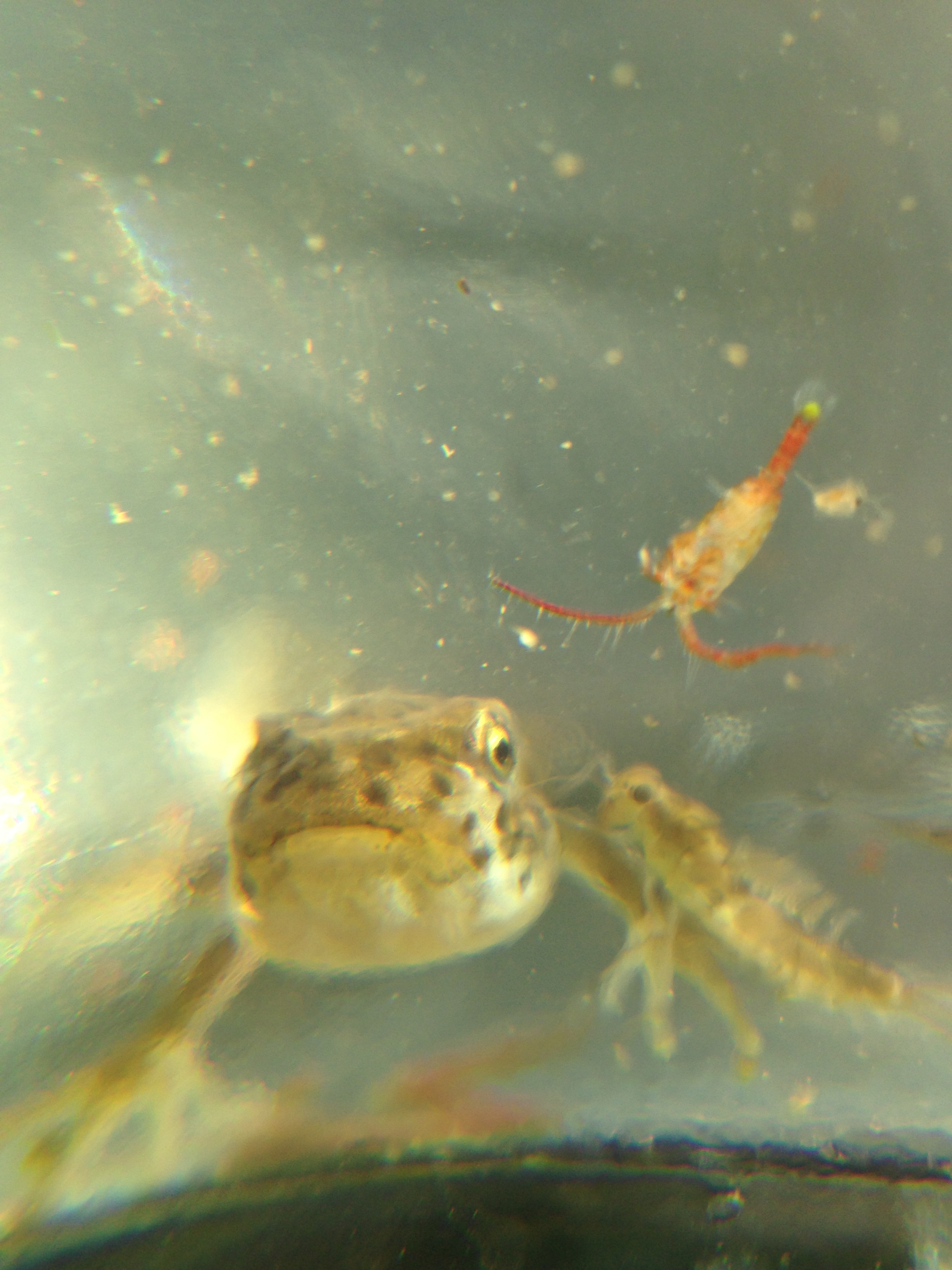 Mature tadpole of Green toad (Bufo viridis) and some Crustaceans (red Copepod and a Mayfly) in Rehovot Vernal pool, Israel. Photo taken through a glass and a convex lens